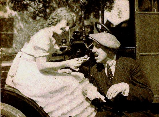 Actress Mary Miles Minter shares a hotdog with the director of her film Charles Maigne, from page 80 of the June 1920 Motion Picture Magazine.